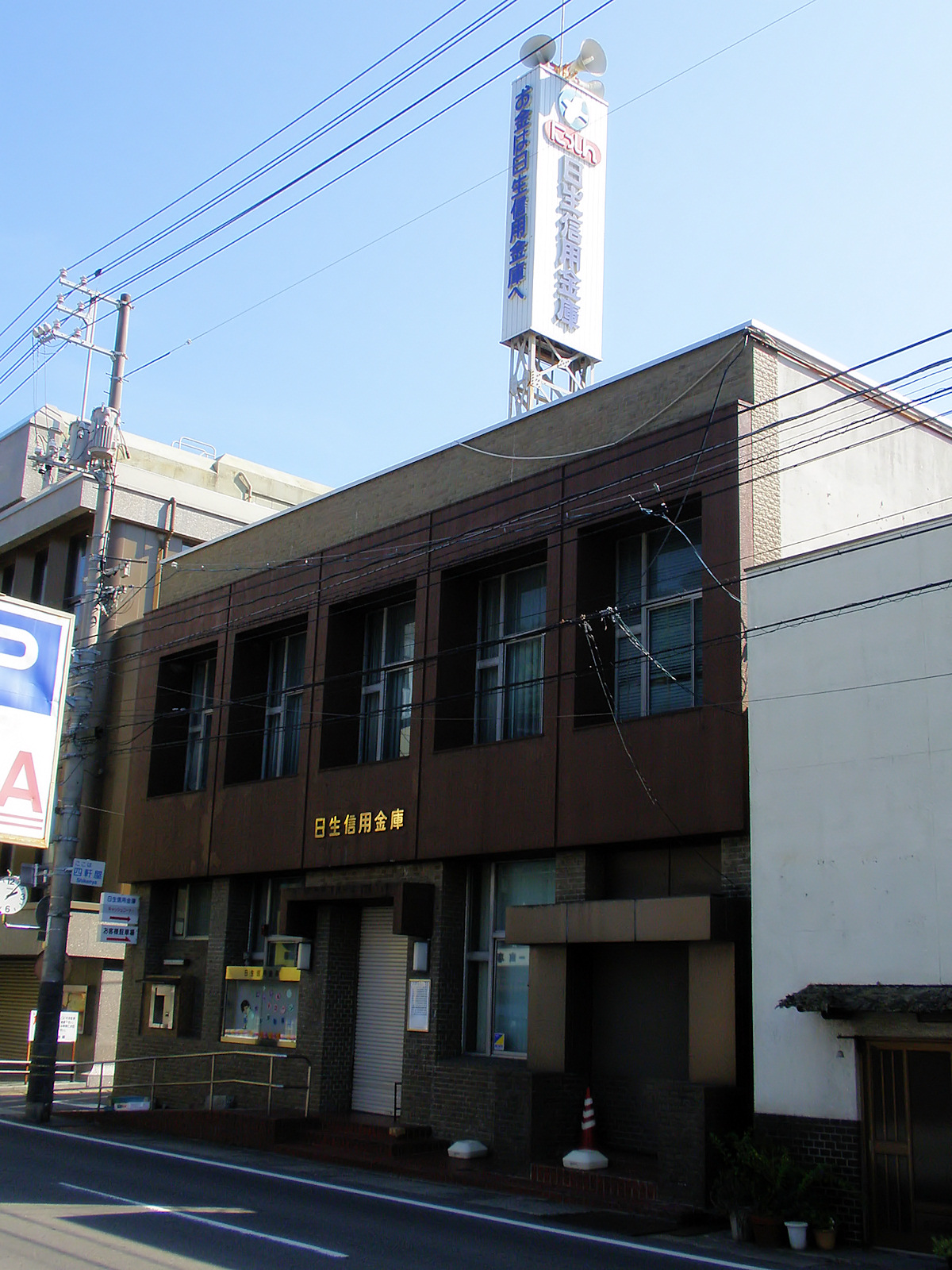 Hinase Shinkin Bank head store